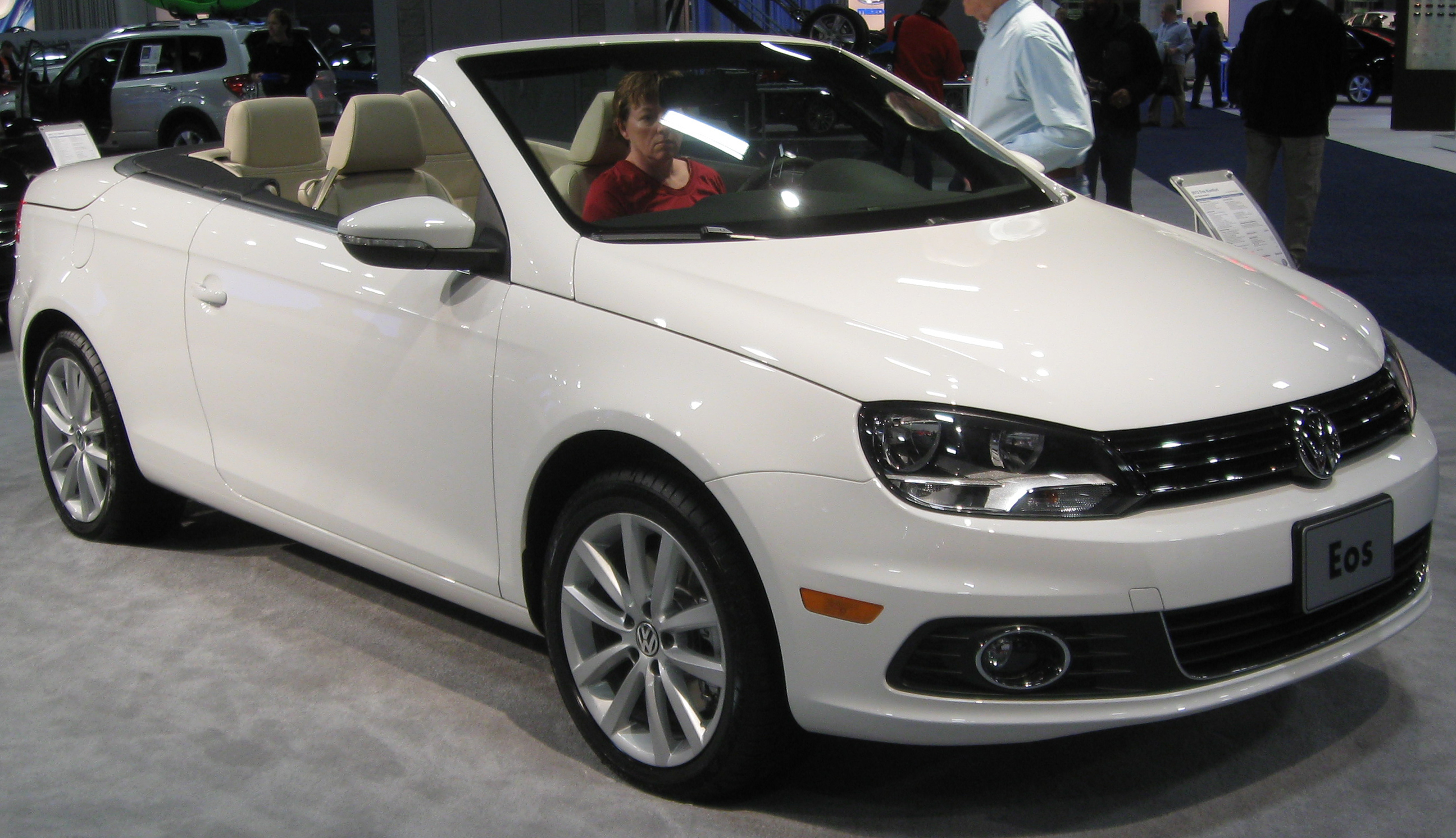 2012 Volkswagen Eos photographed at the 2011 Washington (D.C.) Auto Show.